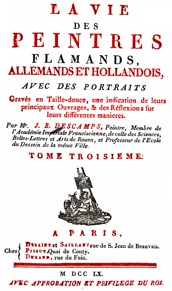 The lives of Flemish, German, and Dutch painters, by Jean-Baptiste Descamps, Volume 3, 1760